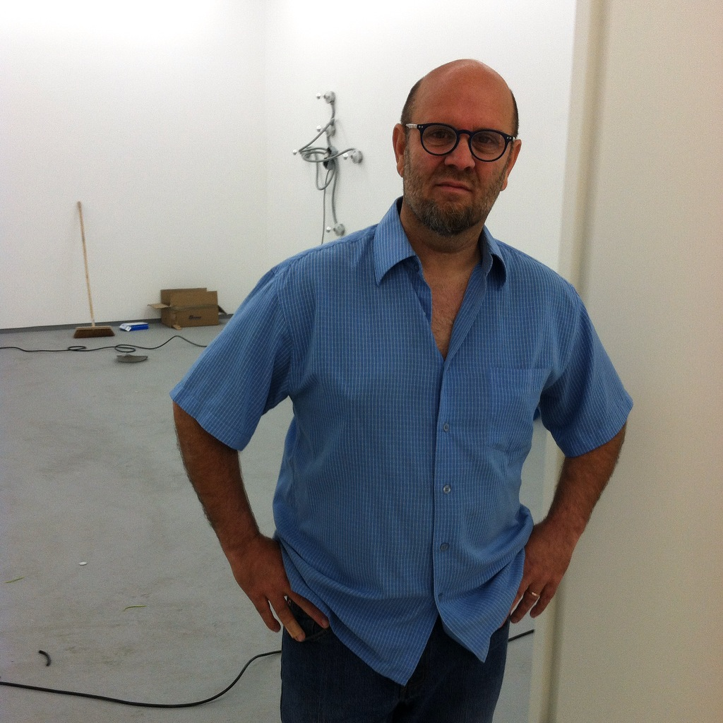 Portrait of the artist installing an exhibition at New Art Projects in London, 2016.